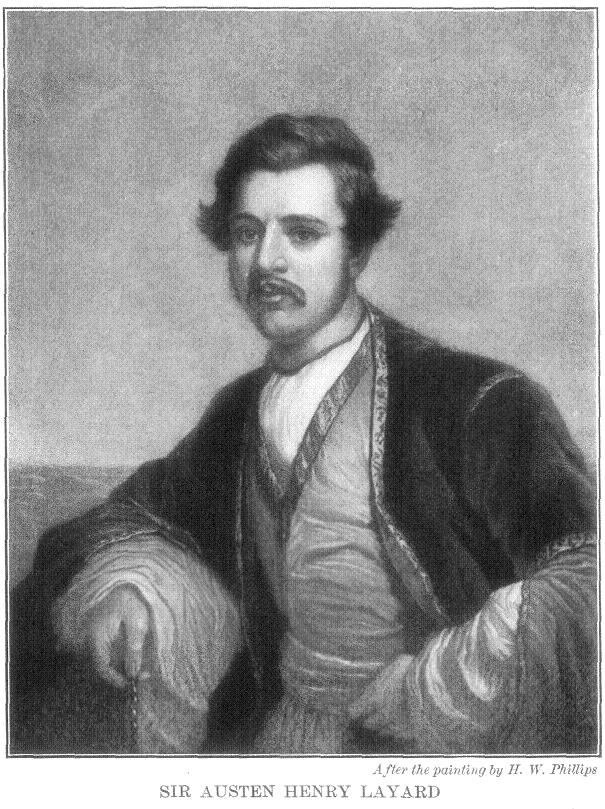 Sir Austen Henry Layard GCB, PC (pronounced /ˈɔːstɪn ˈhɛnriː ˈlɛərd/) (5 March 1817 – 5 July 1894) was a British traveller, archaeologist, cuneiformist, art historian, draughtsman, collector, author, politician and diplomat, best known as the excavator of Nimrud.